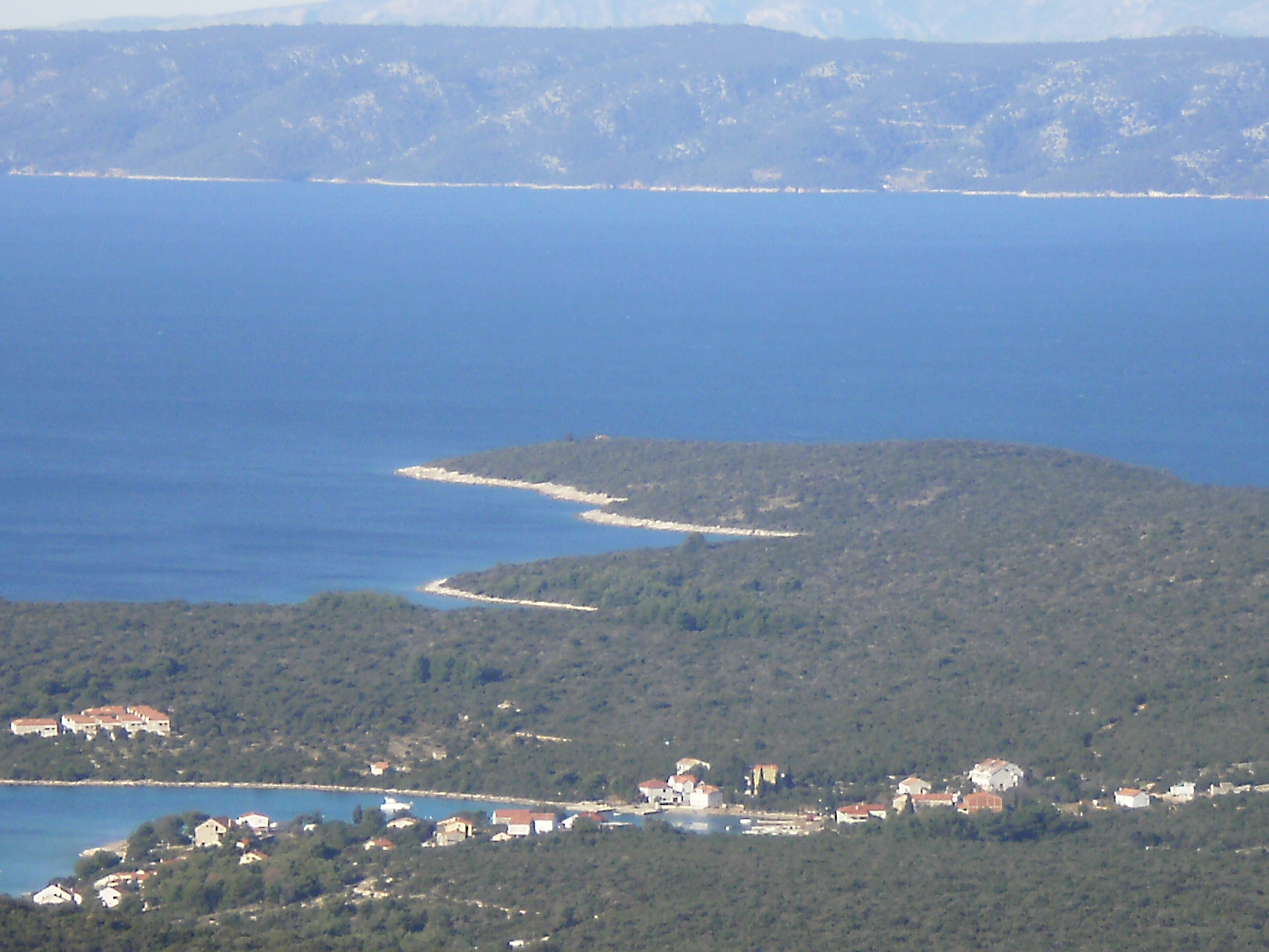 Lovište settlement with cape Lovište-the most western part of Plješac. In background is visible island of Hvar OLYMPUS DIGITAL CAMERA